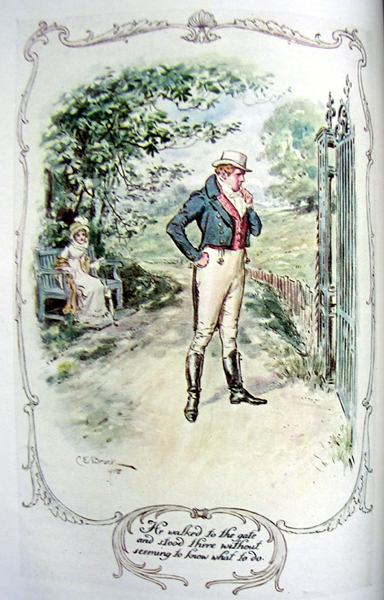 Illustration for ch. 10 of Mansfield Park, in the Series of English Idylls, published by J.M Dent & Co. (London) and E.P. Dutton & Co. (New York). " He walked to the gate and stood there without seeming to know what to do ".